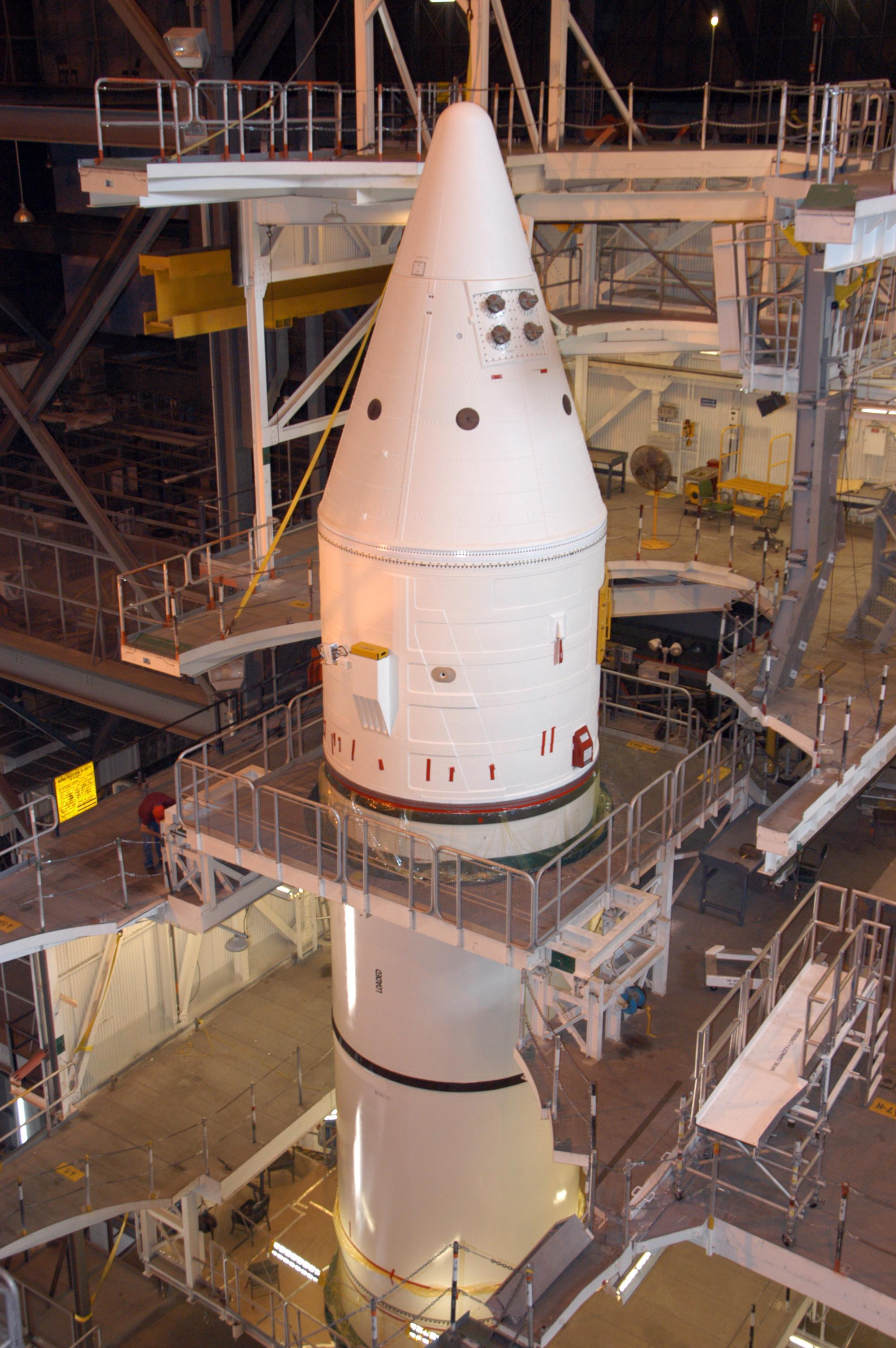 KENNEDY SPACE CENTER, FLA. -- Workers continue stacking the solid rocket boosters in highbay 1 inside Kennedy Space Center's Vehicle Assembly Building. The solid rocket boosters are being prepared for NASA's next Space Shuttle launch, mission STS-117. The mission is scheduled to launch aboard Atlantis no earlier than March 16, 2007.